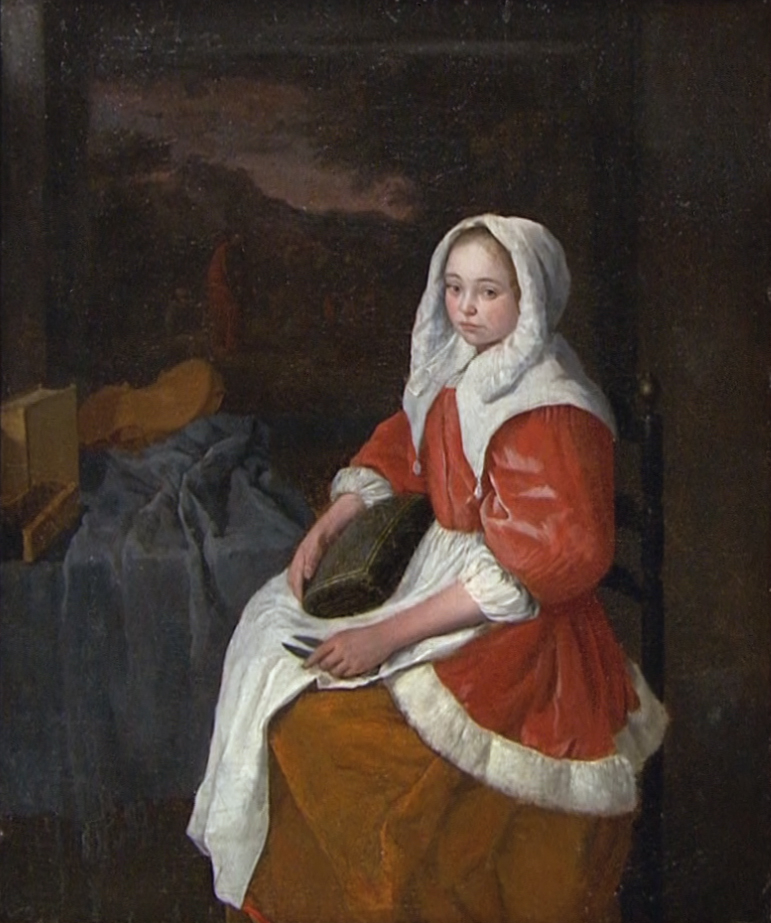 The lacemaker